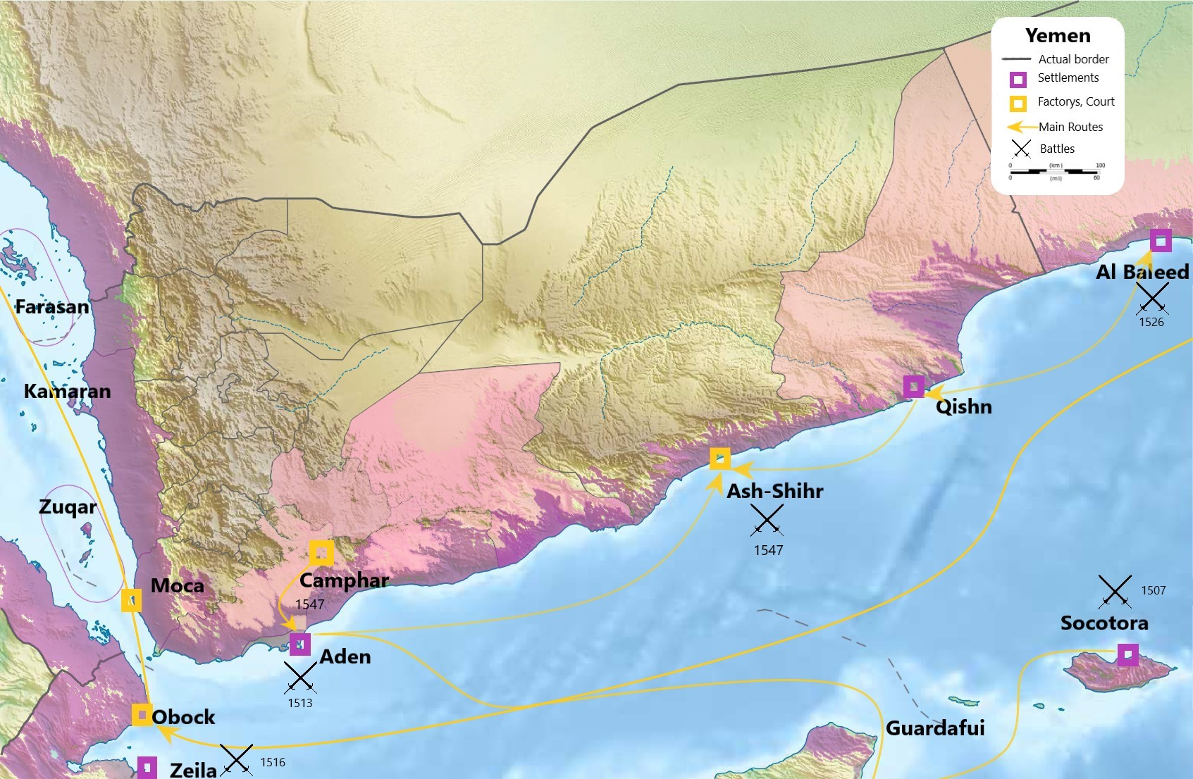 Portuguese presence in Yemen and their allieds